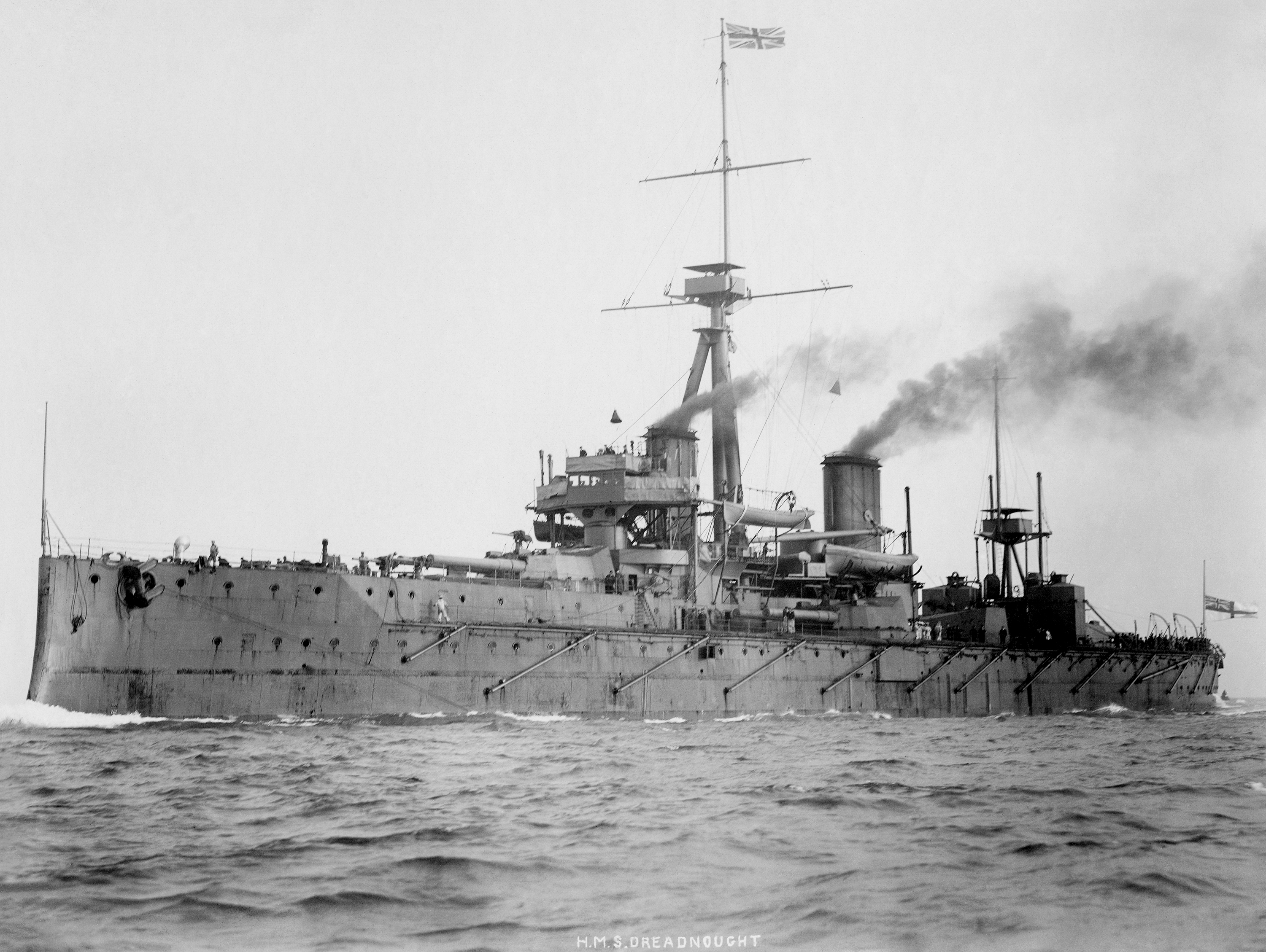 HMS Dreadnought (British Battleship, 1906) underway, circa 1906-07; Removed caption read: Photo # NH 61017 HMS Dreadnought (British battleship, 1906)